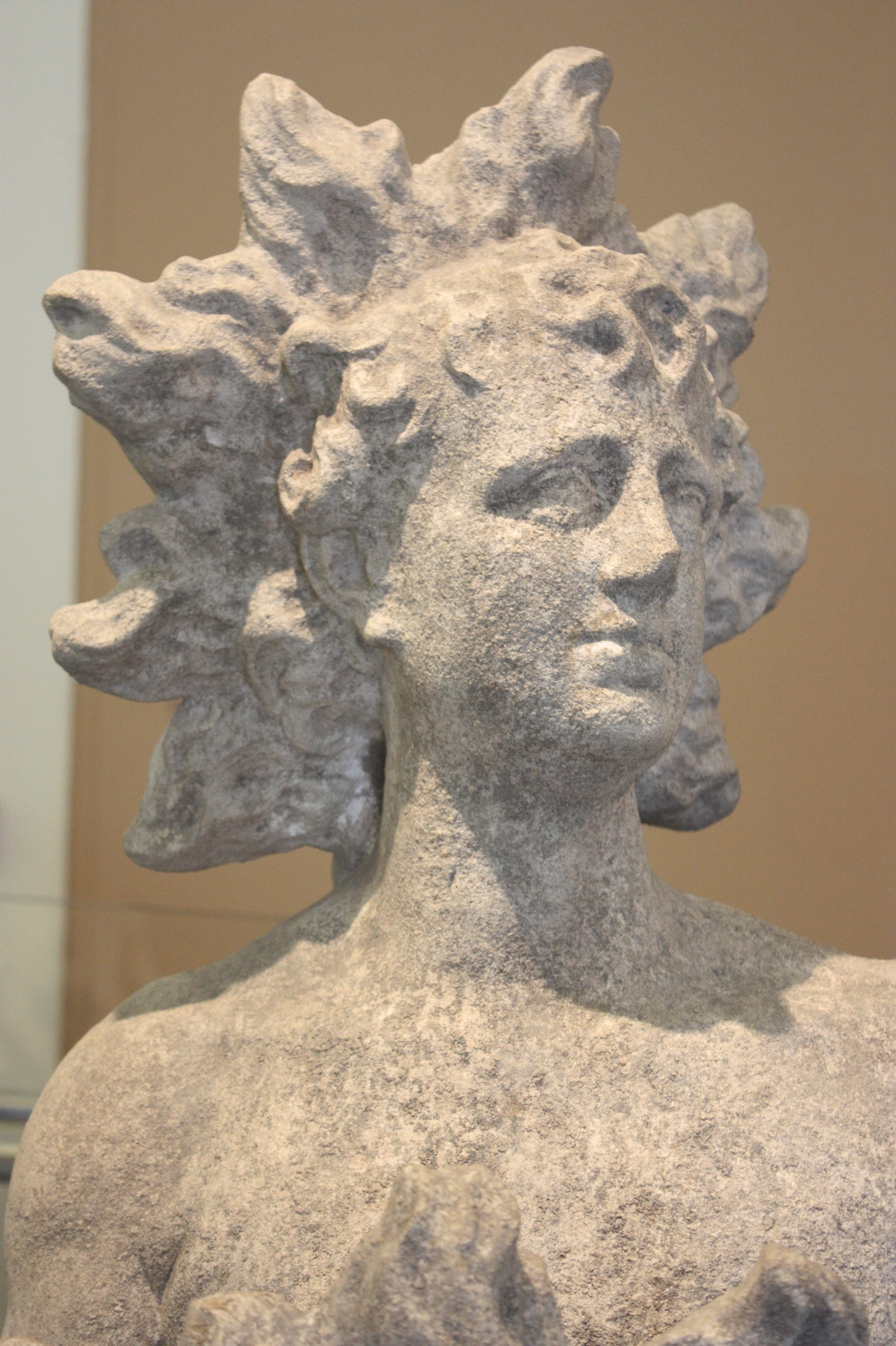 Sunna by John Michael Rysbrack, 1728